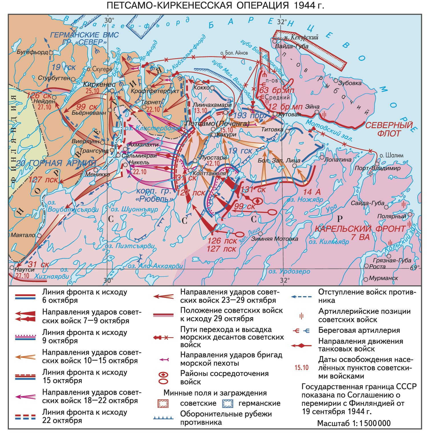 1944 Kirkness-Petsamo offensive detailed plan